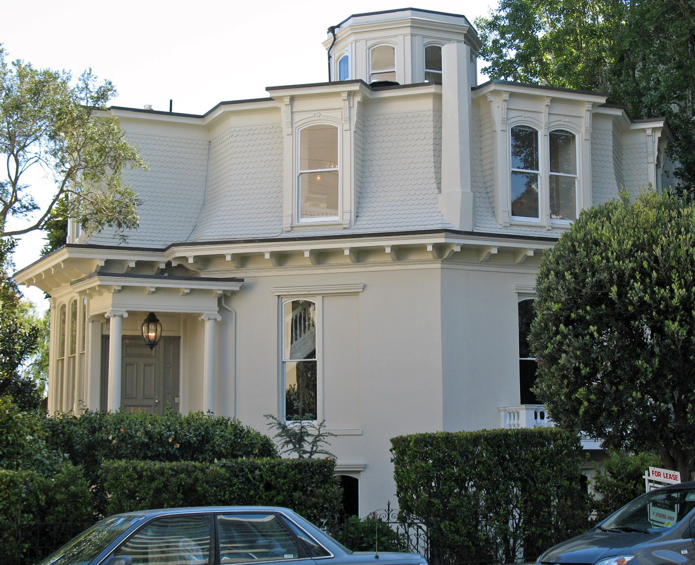 National Register of Historic Places in San Francisco, California. Feusier Octagon House, 1067 Green St, San Francisco, California, USA. Photographed 2008-04-26 by Mike Hofmann from the north side of Green St. between Leavenworth and Jones Sts.